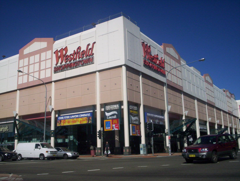 Westfield shopping centre at Miranda, Sydney, Australia I took the photo Cfitzart 09:59, 22 August 2005 (UTC)